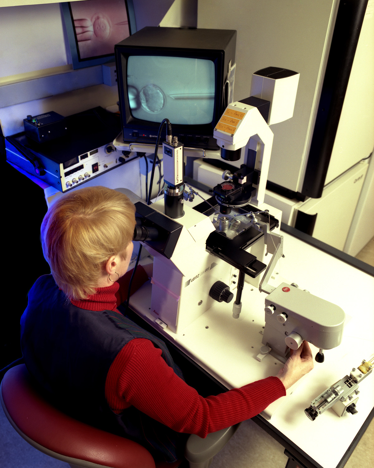 LRDT Microscopy - NIEHS - A Biologist in the Laboratory of Reproductive and Developmental Toxicology at work.